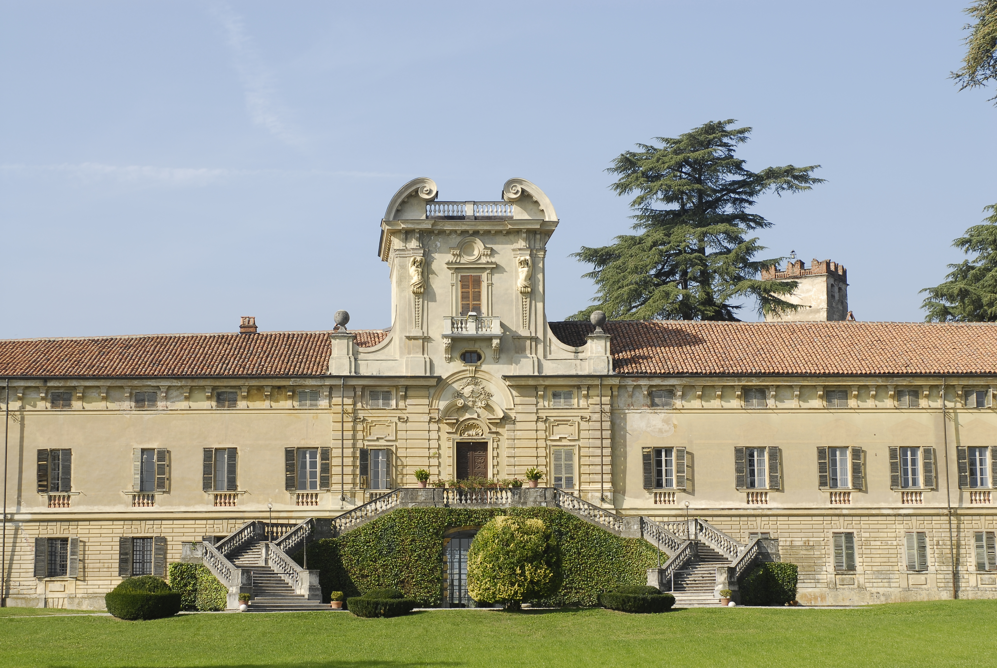 New Castle, Rivara, Italy